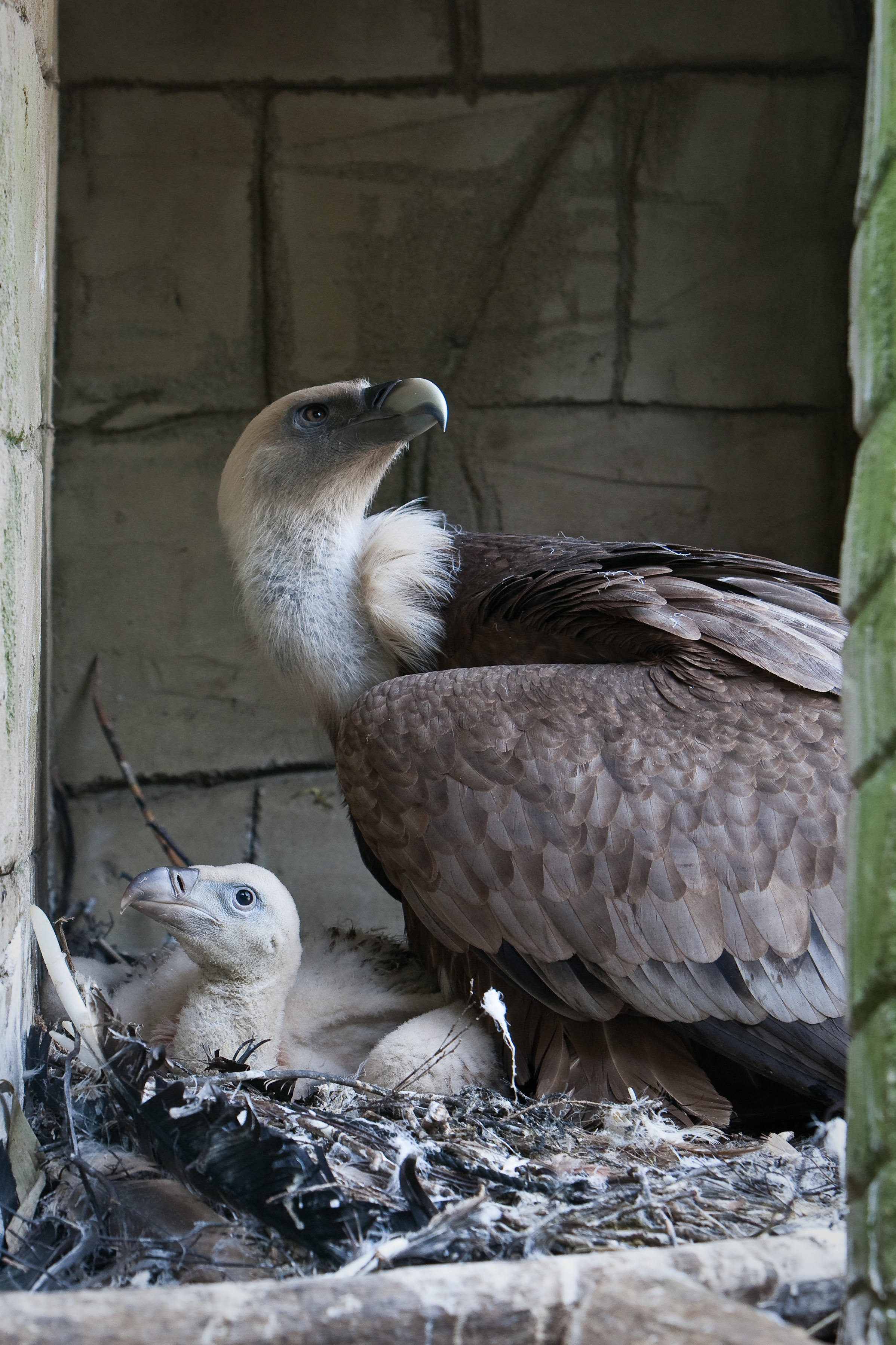 An adult with a chick Eurasian Griffon Vulture (also known as Griffon Vulture) at DierenPark Amersfoort, Amersfoort, Netherlands.